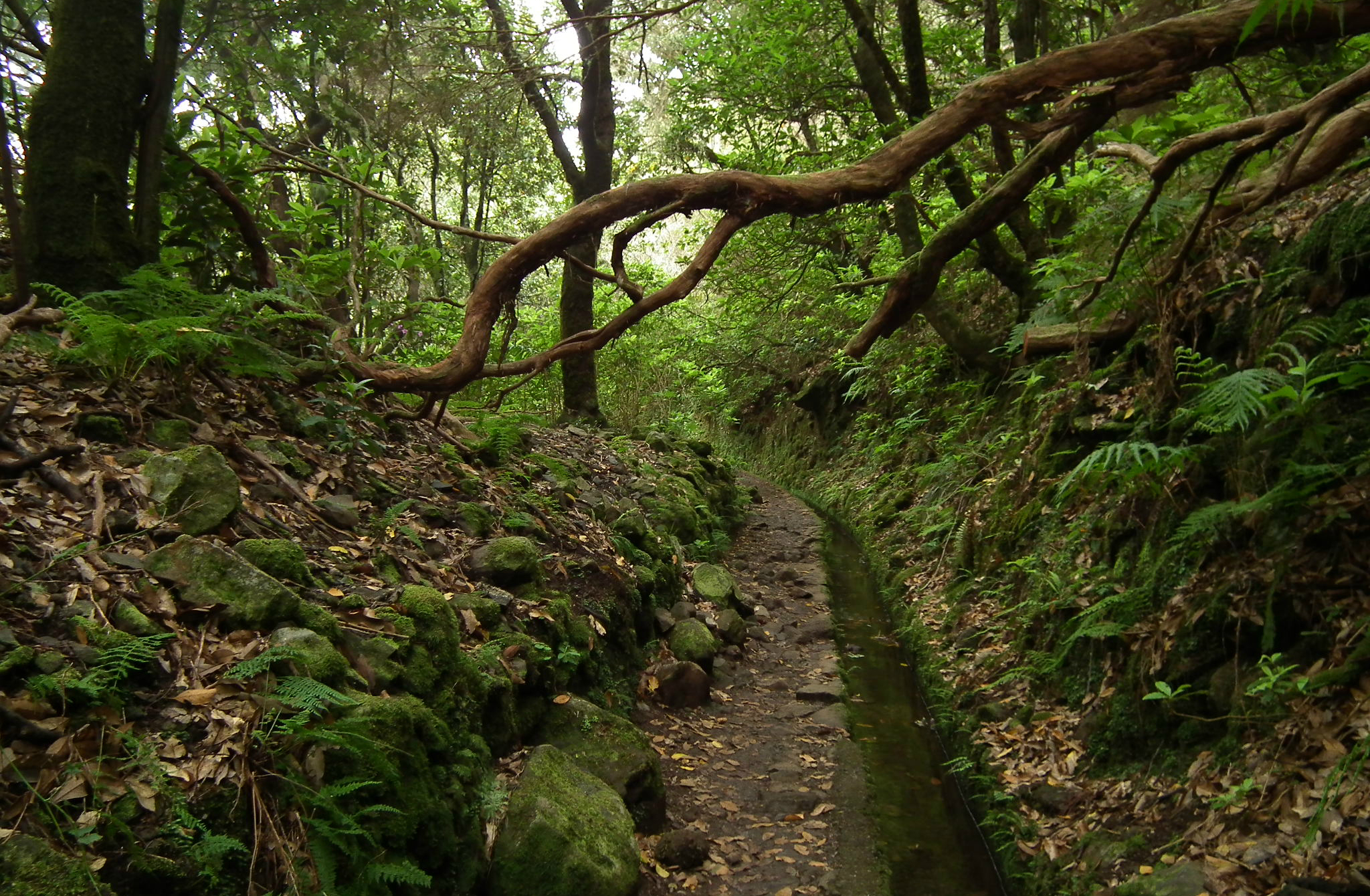 Old roads and passagens between villages and other places in Madeira Island (Atlantic Ocean) surronded by UNESCO protected forest. This is a photography of a Site of Community Importance in Portugal with the ID: PTMAD0001. Natura2000 entry, EEA entry